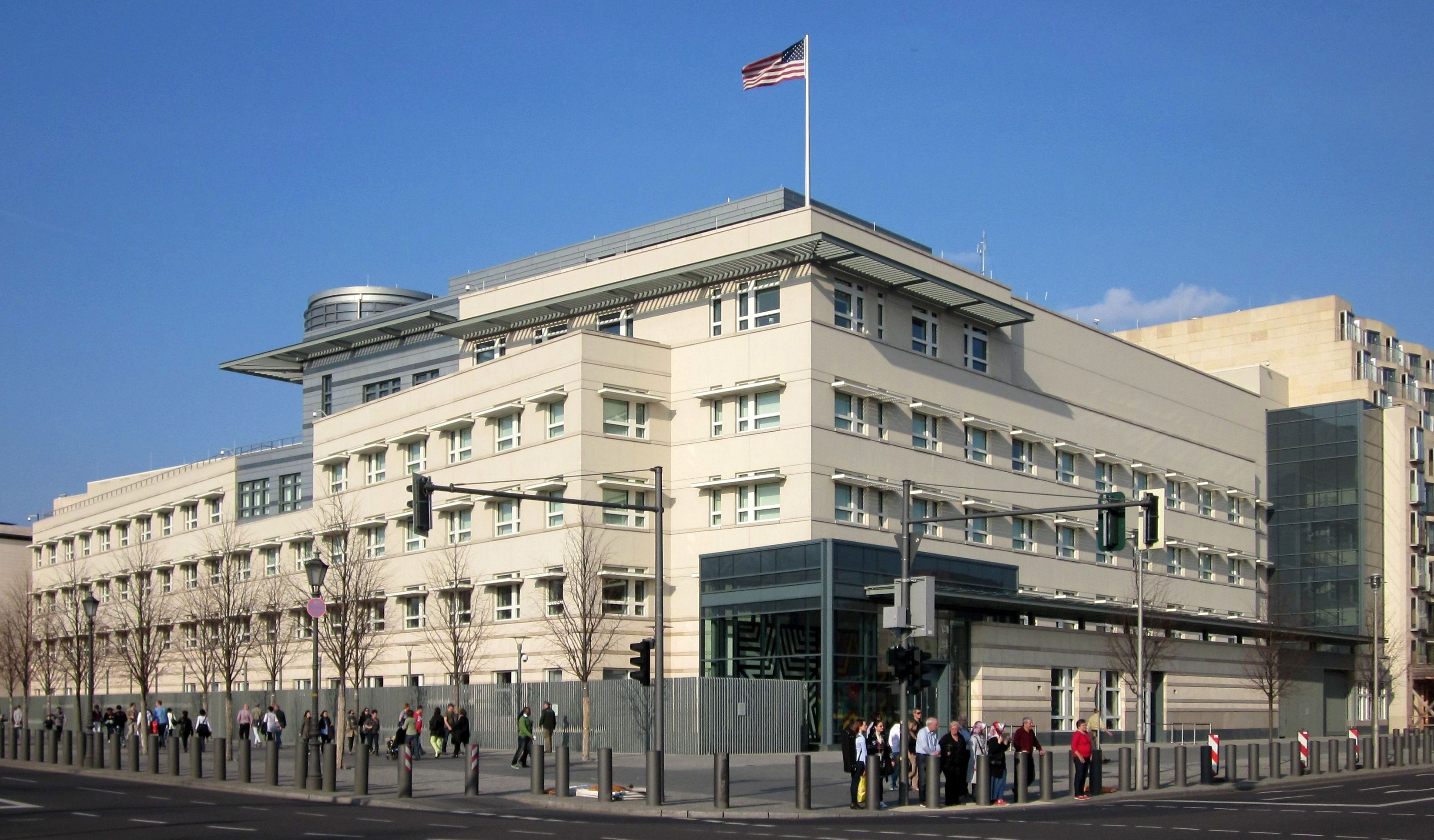 The US embassy in Berlin at the corner of Ebertstraße and Behrenstraße (on the right) in Berlin-Mitte.